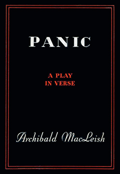 Front cover of the first-edition dust jacket for Panic, a play in verse by Archibald MacLeish